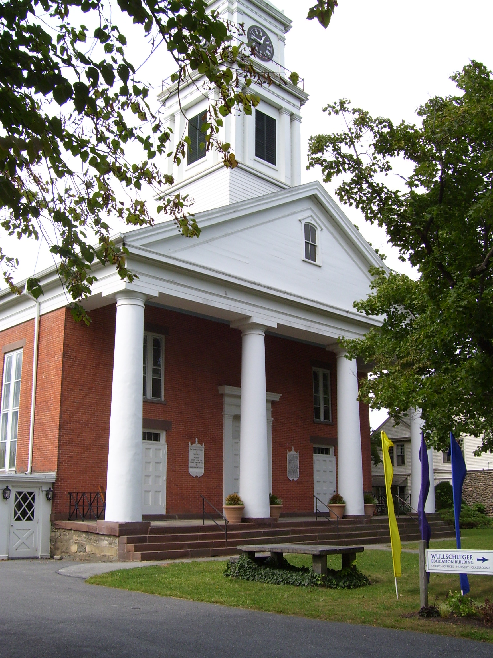 Photo of the The Reformed Church of New Paltz, New York, USA.